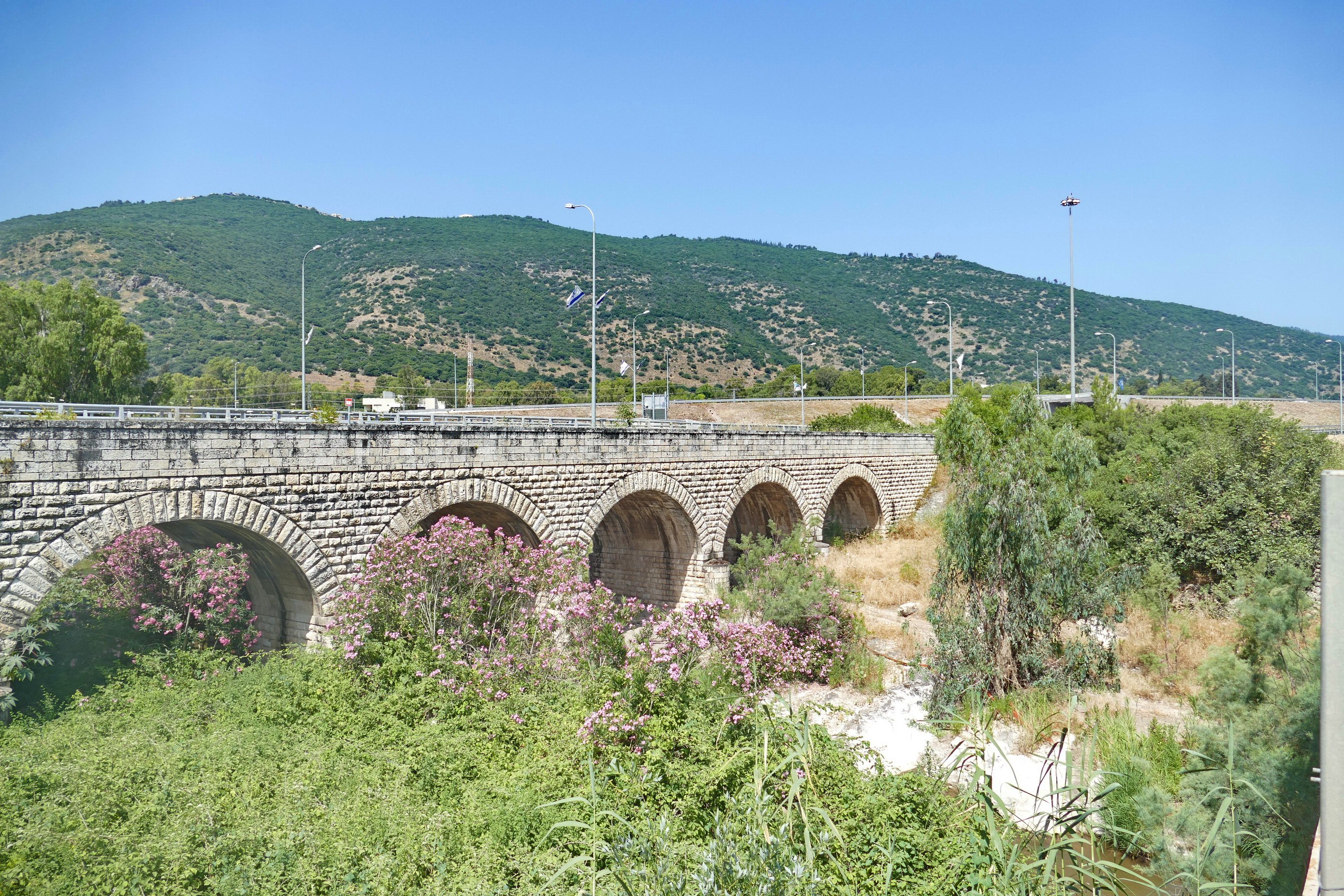 The railway bridge over the Kishon